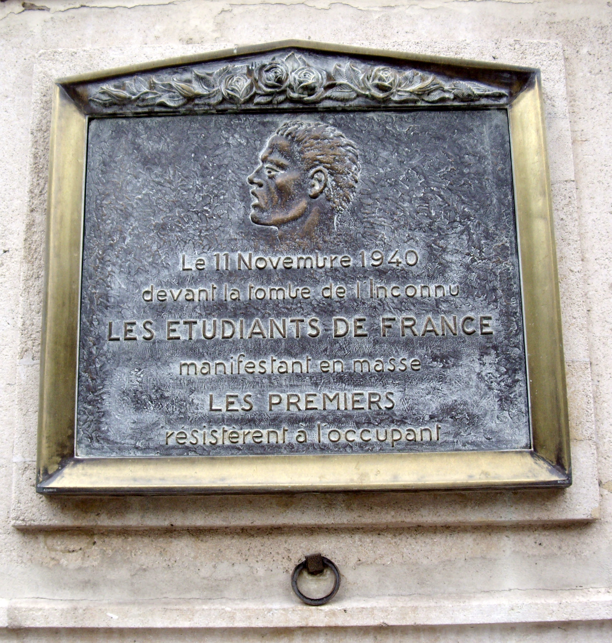 Plaque at No 156 Avenue des Champs-Élysées, Paris 8th, near the Arc de Triomphe, commemorating the first emergence of the French Resistance, on World War I Armistice Day, 11 November 1940, in the form of a demonstration by a large group of French students at the tomb of the unknown soldier.